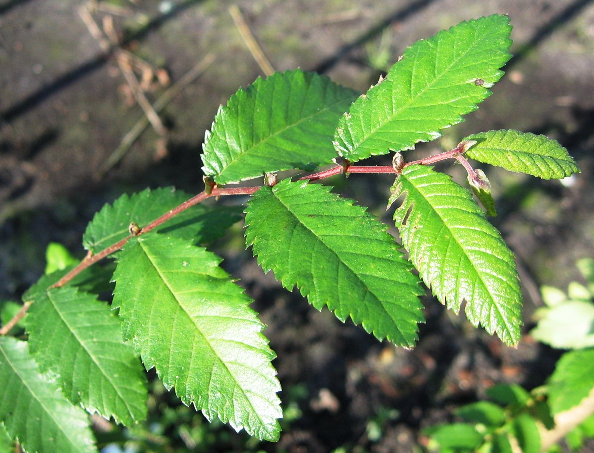 Photo of the leaves of Ulmus alata.